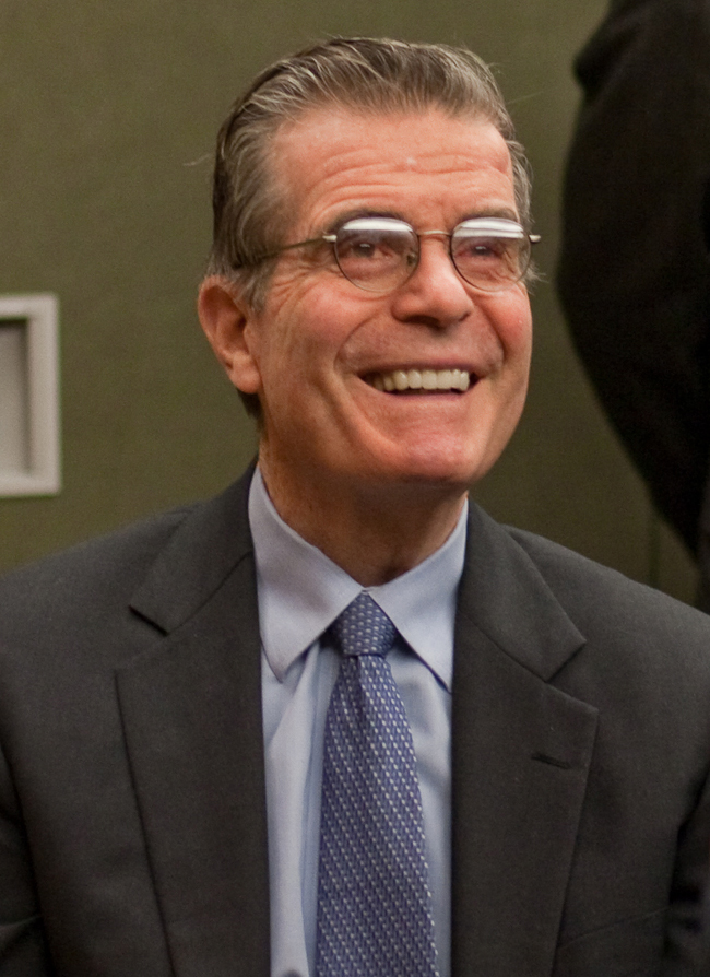 Ted Sorensen at a Hudson Union Society event in May 2009.